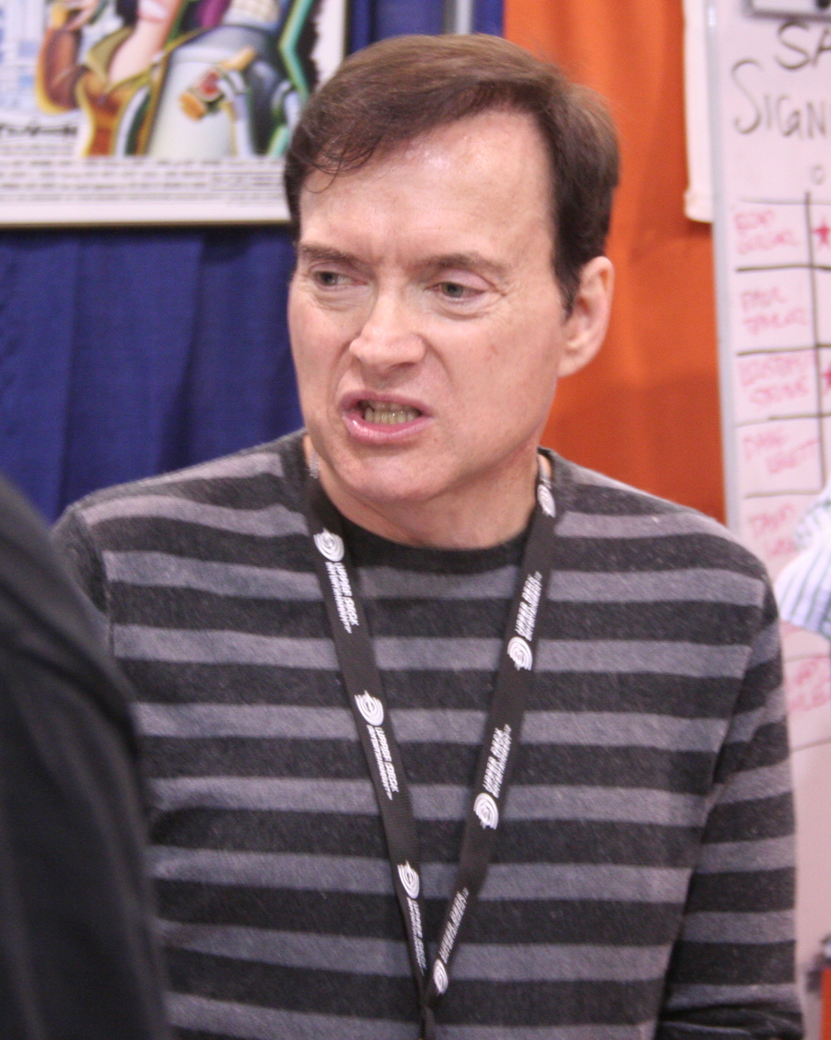 Billy West